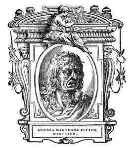 Illustratio from "Le Vite" by Giorgio Vasari, edition of 1568. For the artist portrayed see filename